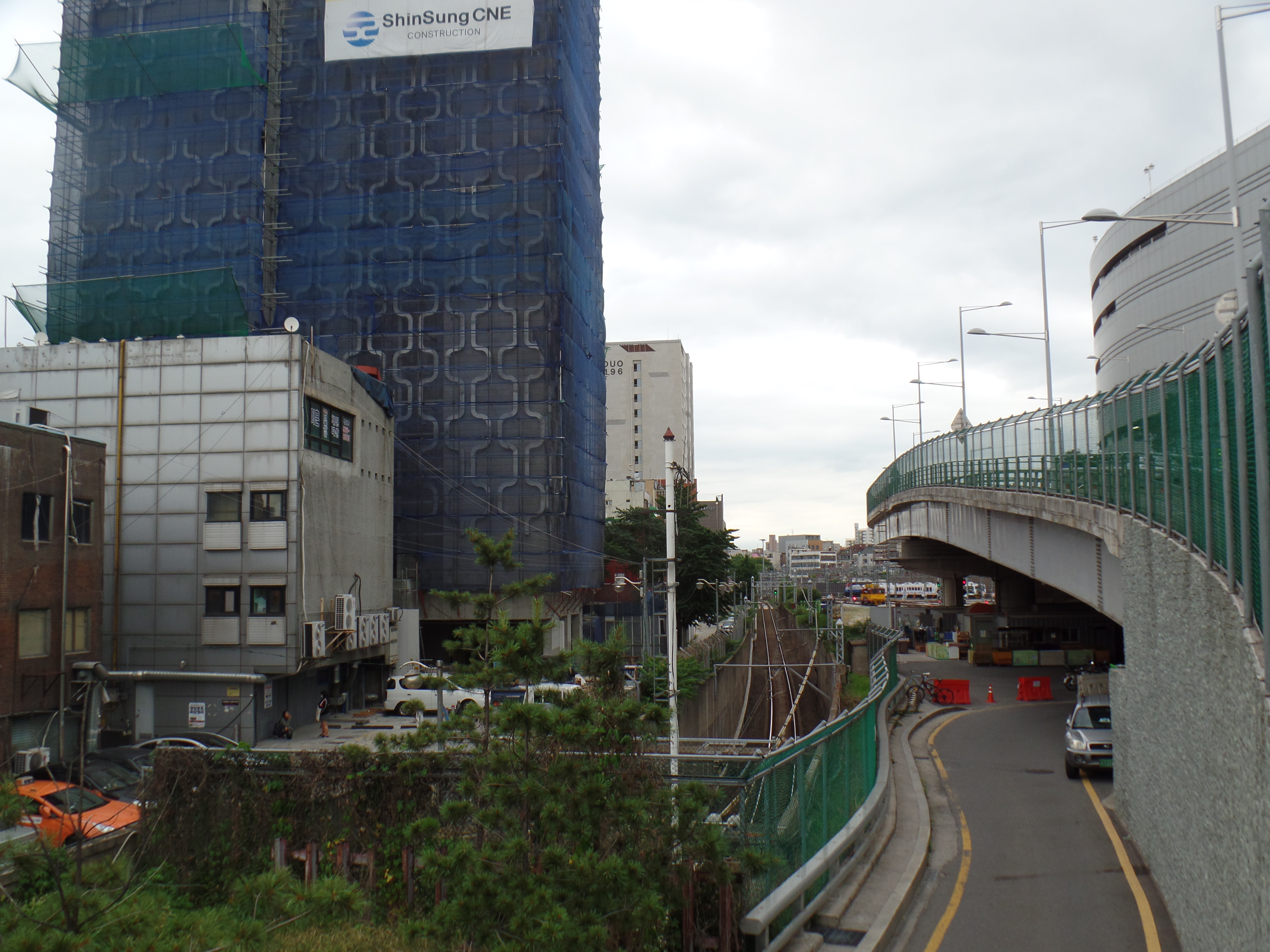 Seoul Metro Line 1 Underground-Aboveground Connecting Line in Cheongnyangni